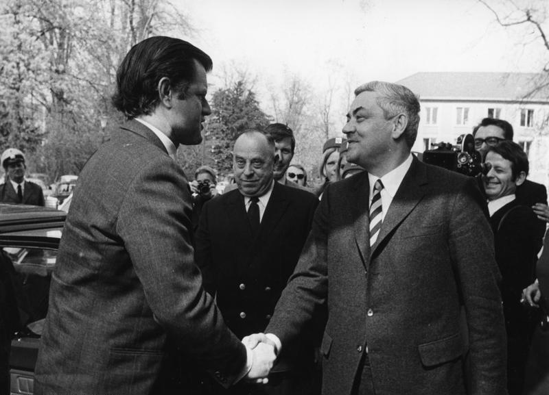 Bundesminister Dr. Ehmke mit Senator Kennedy Information added by Wikimedia users.I found this photo on the Bundesarchiv. It was named and filed under Robert Kennedy. This is a photo of his brother Senator Edward Kennedy, taken three years after Robert Kennedy's death. I am uploading a copy of this photo with the correct name in the file title.